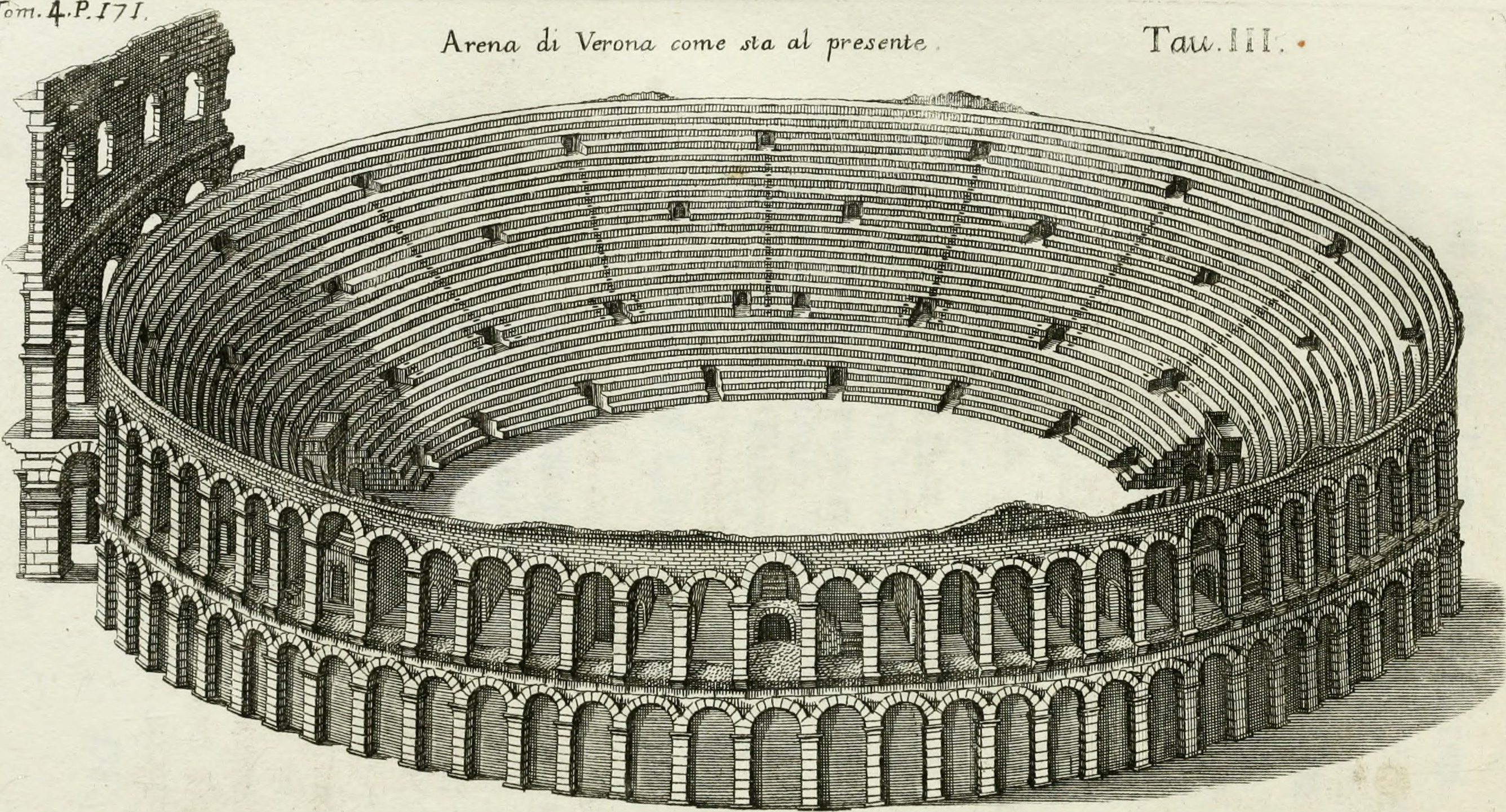 Title: Verona illustrata Year: 1731 (1730s) Authors: Maffei, Scipione, marchese, 1675-1755 Vallarsi, Jacopo Berno, Pierantonio Subjects: Amphitheaters Fortification Publisher: In Verona : Per Jacopo Vallarsi, e Pierantonio Berno Text Appearing Before Image: DE Text Appearing After Image: i7i